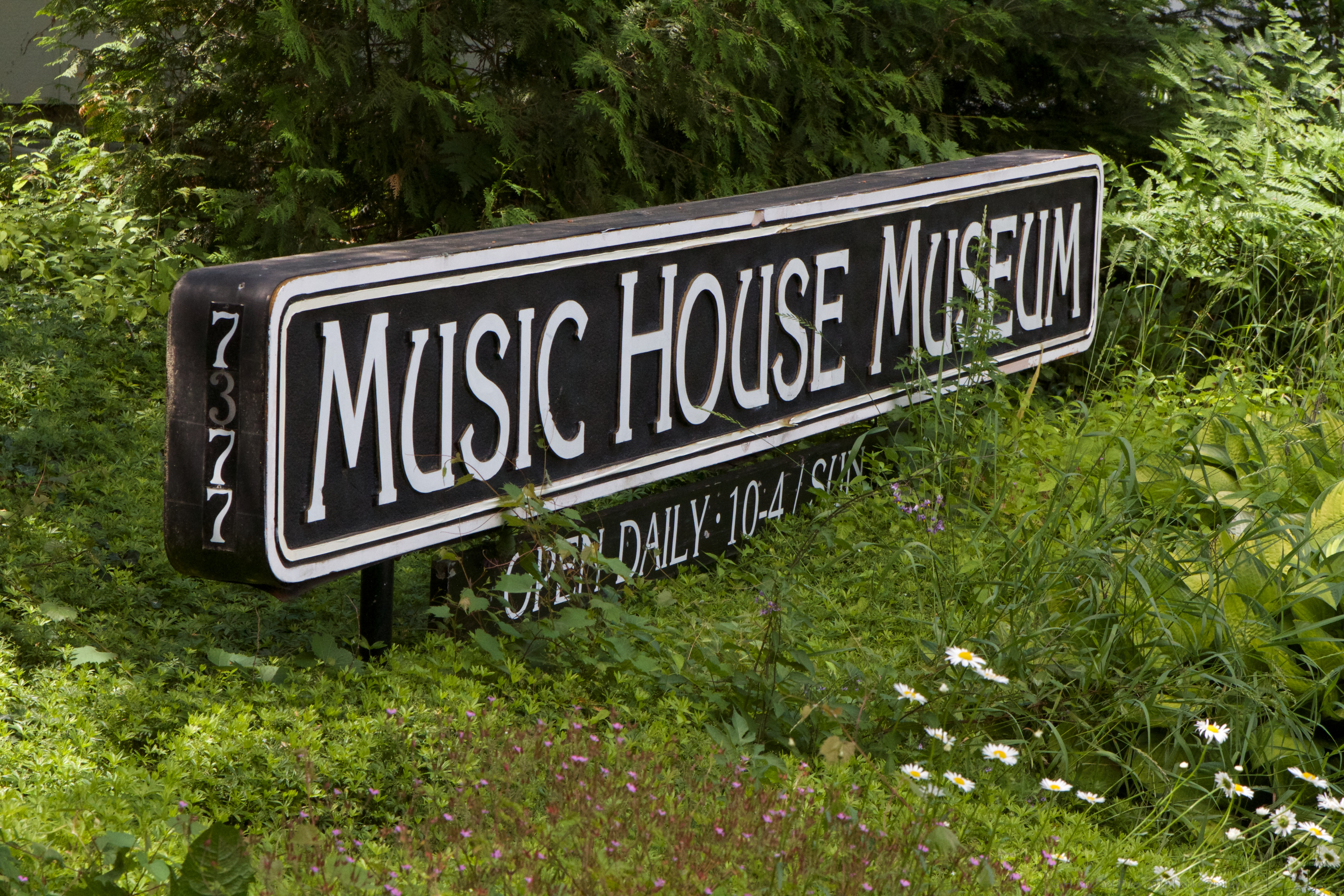 Music House Museum